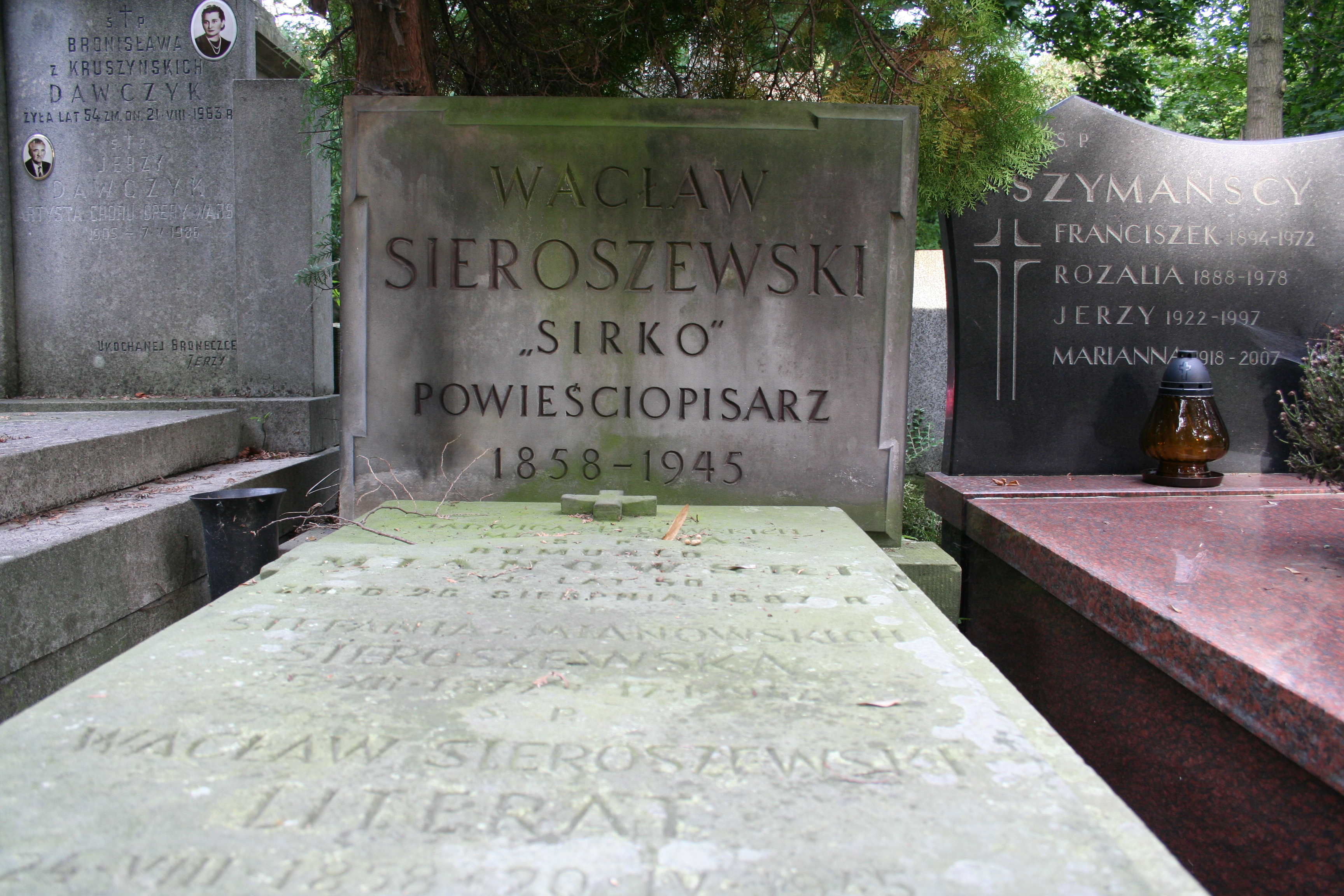 Grave of Wacław Sieroszewski at Powązki Cemetery in Warsaw, Poland